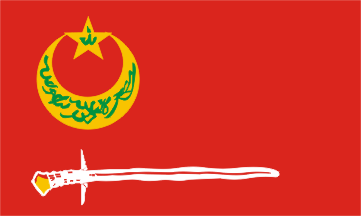 Flag of MNLF (as used in Tripoli peace negoacitions)